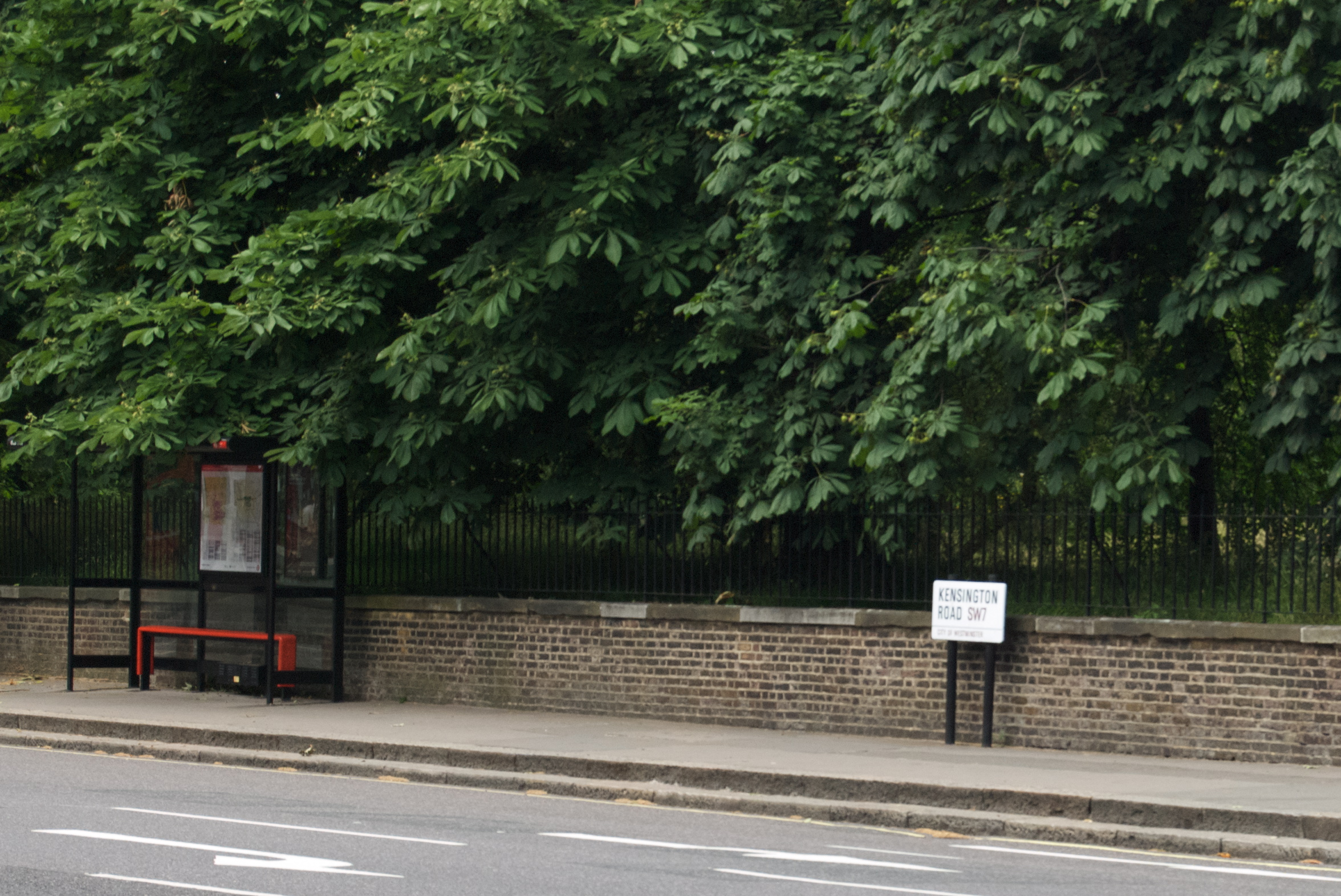 Kensington Road, road sign and bus stop